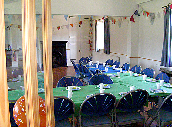 Ready for feasting...